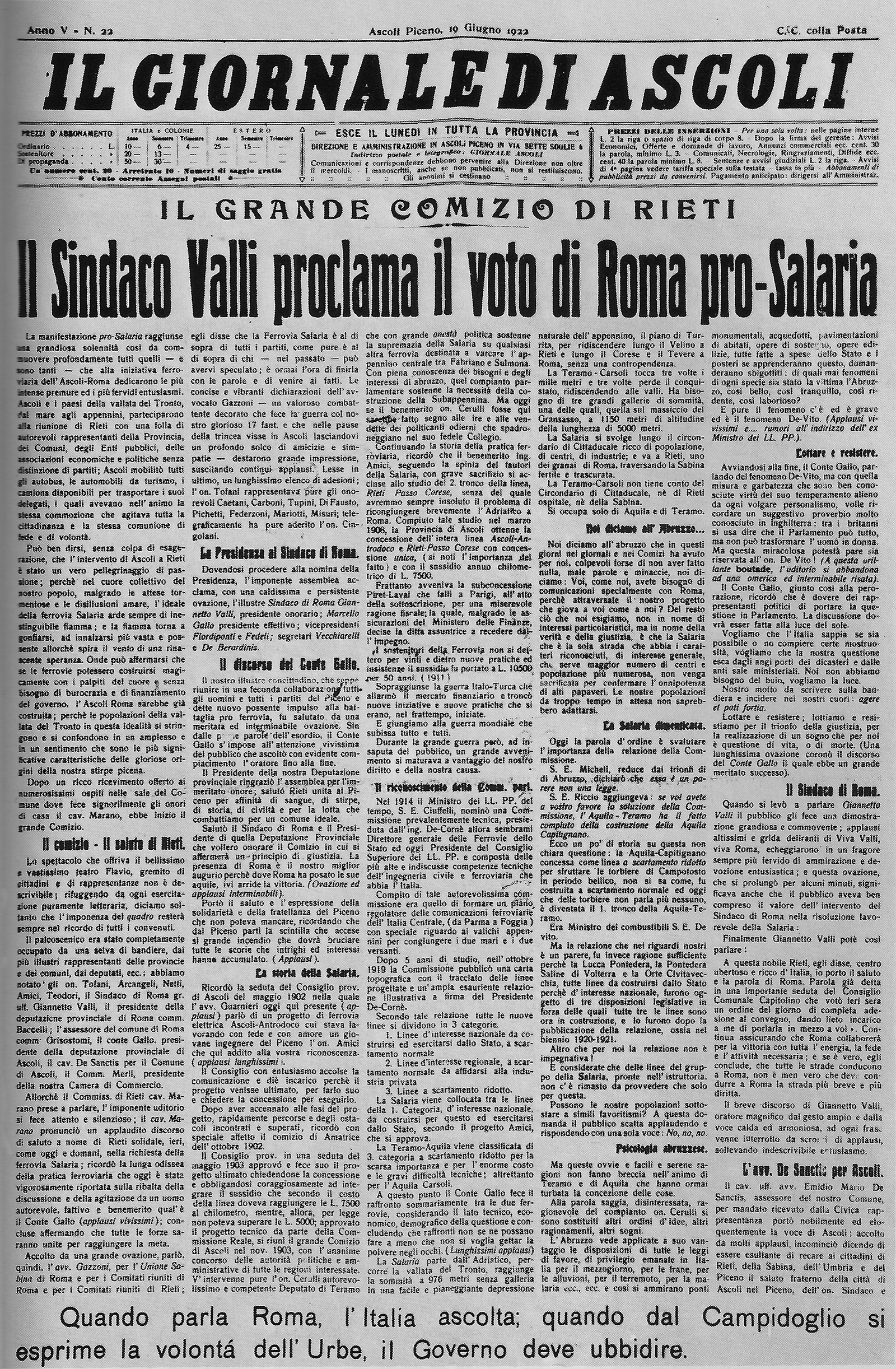 Article titled "Mayor Valli announces Rome's pro-Salaria decision" on the front page of June 19, 1922 issue of "Il Giornale di Ascoli", reporting the June 15 meeting held in Rieti supporting the Salaria railway construction